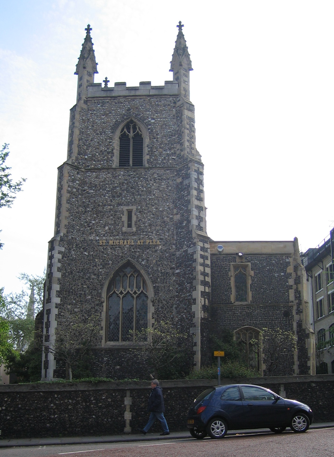 St Michael at Plea Church, Norwich, Norfolk County, England